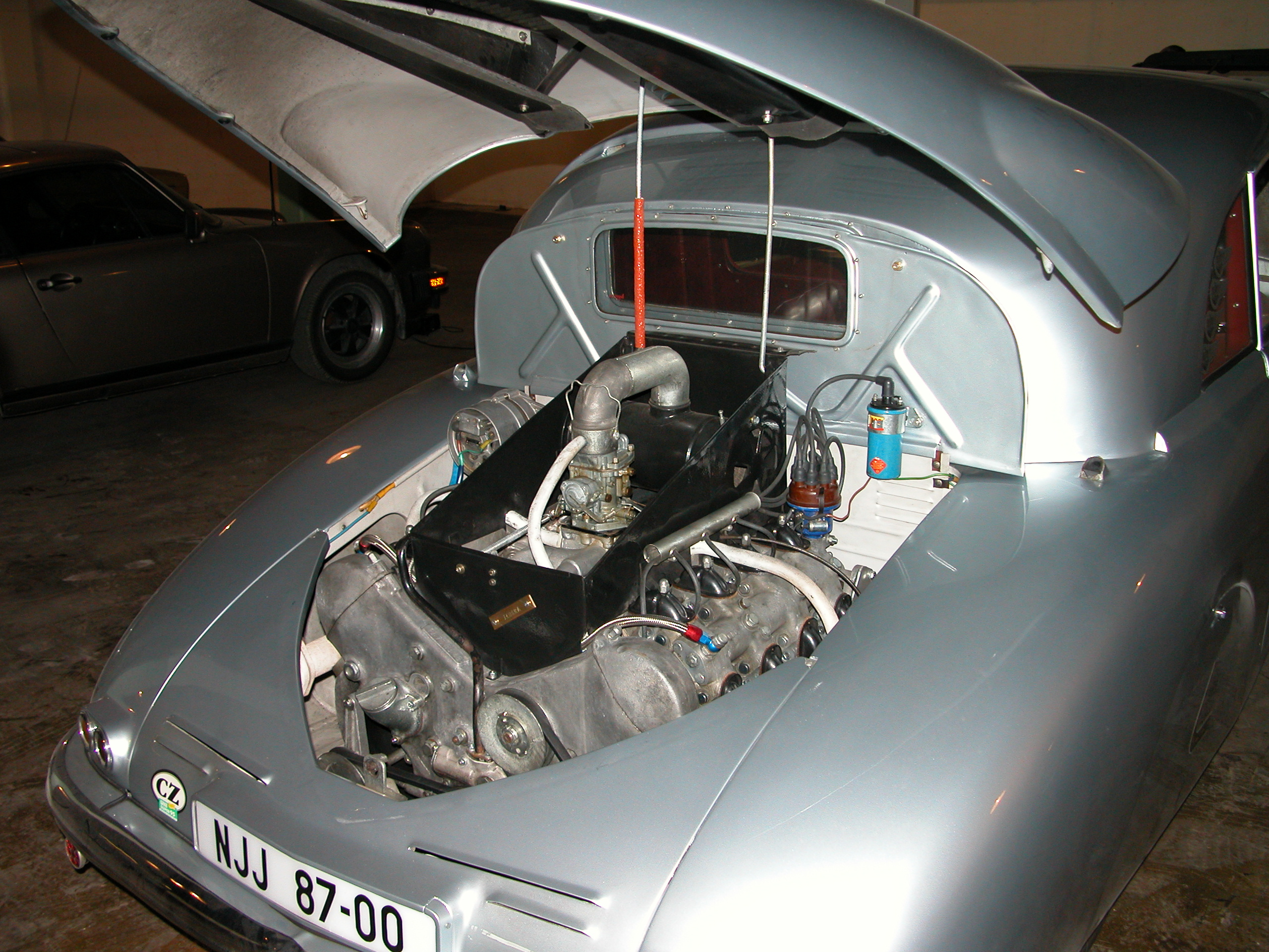 American Automobile Culture: Cars from the Lane Motor Museum A rare Czech Tatra T-87 Saloon, one of the most aerodynamic cars ever